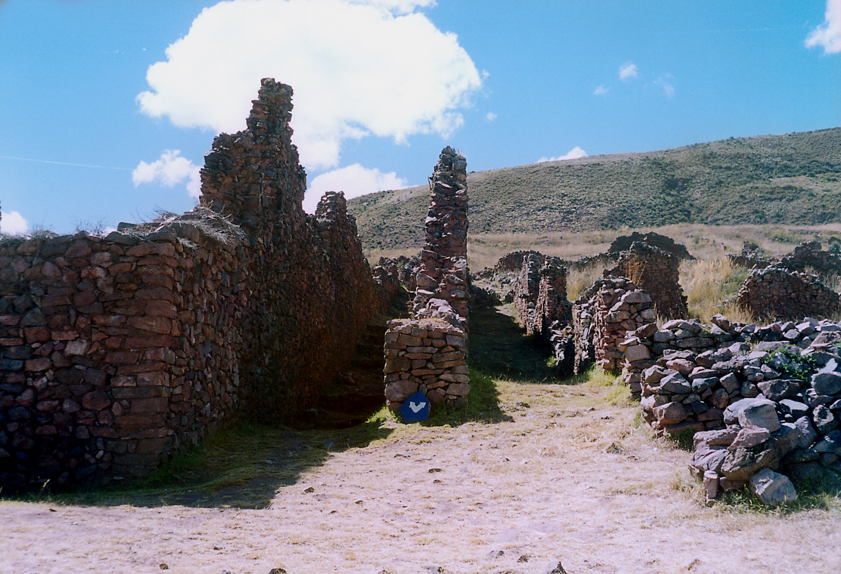 Piquillacta, 30 km SE from Cusco, Peru. The photo was taken by Håkan Svensson (Xauxa) in June 2002.